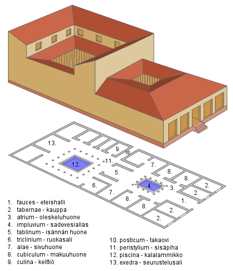 Ancient Roman dwelling, a domus.